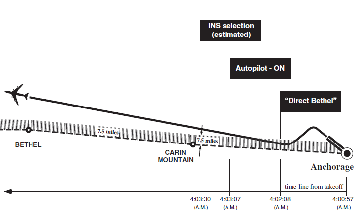 Diagram showing the divergence of KAL 007 from its assigned flight path after take-off. Once it had diverged more than 7.5 miles from the track programmed into its inertial navigation system (INS), the autopilot could not activate INS navigation mode when it was selected by the crew; instead the aircraft continued to navigate on a constant magnetic heading, without the crew realizing this. NOTE: This diagram is incorrect because Cairn Mount is 285km from Anchorage, and therefore could not have been reached 3mins after take-off.